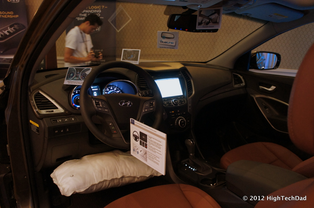 Photos from a special media, press & blogger event held in Park City, UT announcing the new 2013 Hyundai Santa Fe automobile. More information can be found at